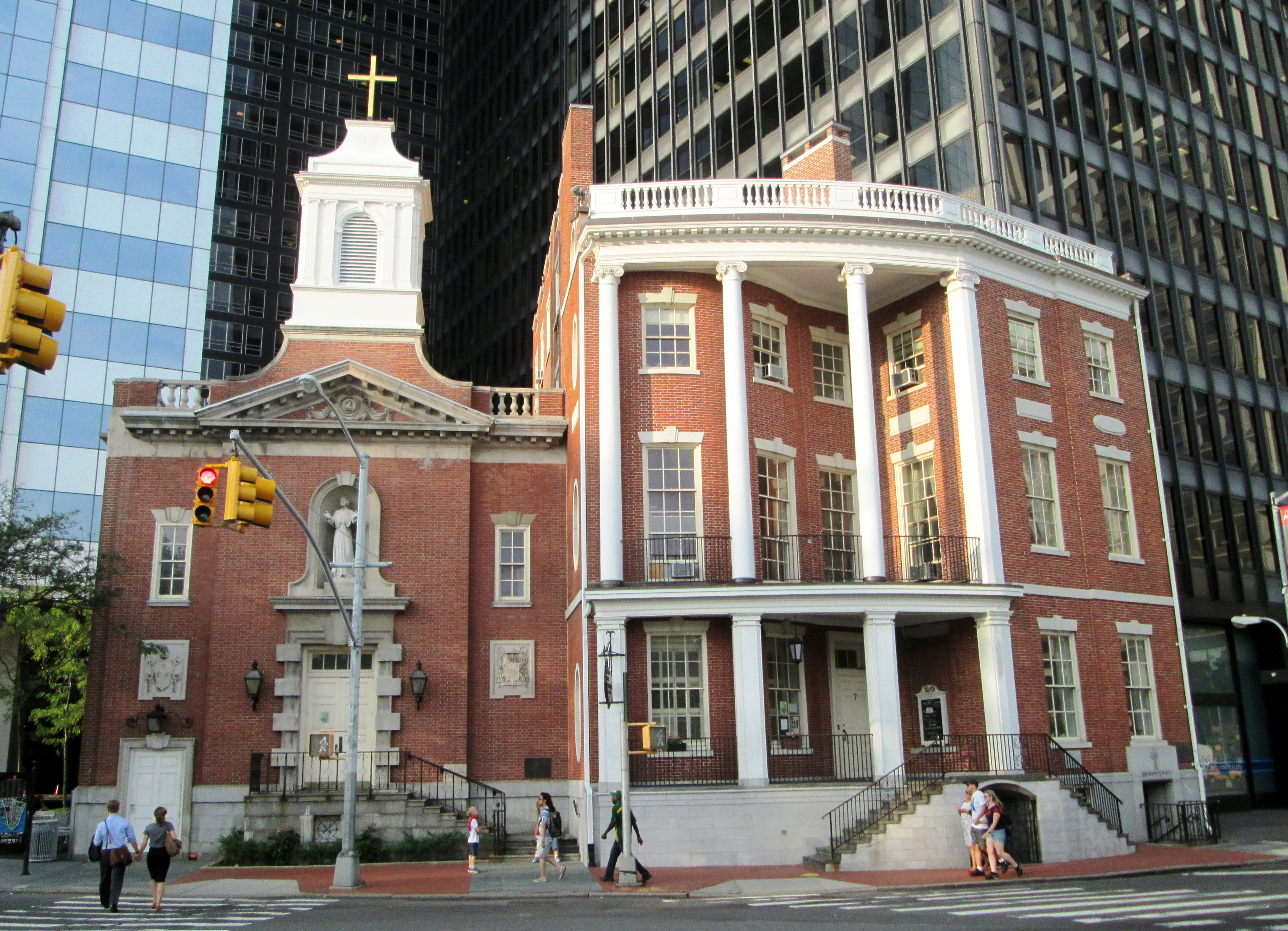 The Rectory (right) of the Shrine of St. Elizabeth Ann Bayley Seton (left) at 7 State Street between Pearl and Water Streets in the Financial District of Manhattan, New York City, was originally built in 1793-1806 in the Federal style, as the home of James Watson, the first Speaker of the New York State Assembly, a Federalist member of the New York and United States Senates. The western half of the house is attributed by John McComb, Jr. After the Civil War, the house was converted to the Mission of Our Lady of the Rosary, a way station for young immigrant girls, and in 1975 became the Rectory of the Shrine of St. Elizabeth Ann Bayley Seton. The brick Church of Our Lady of the Holy Rosary, to the left of the James Watson House, home to the Shrine, was built in 1964-5 and was designed by Shanley & Sturges.